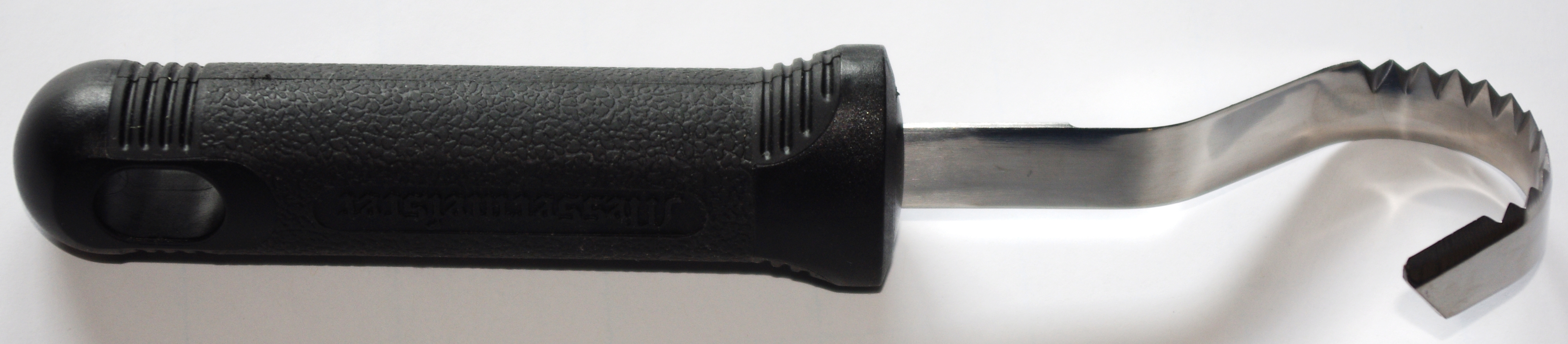 A butter curler is a kitchen tool designed to produce decorative butter shapes for use in food decoration.